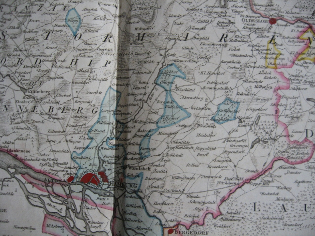 Imperial City of Hamburg with detached areas (exclaves). The territory of Cuxhaven at the mouth of the Elbe River was also owned by Hamburg. From a map of the Dutchy of Holstein and nearby states published by British geographer William Faden in 1804.